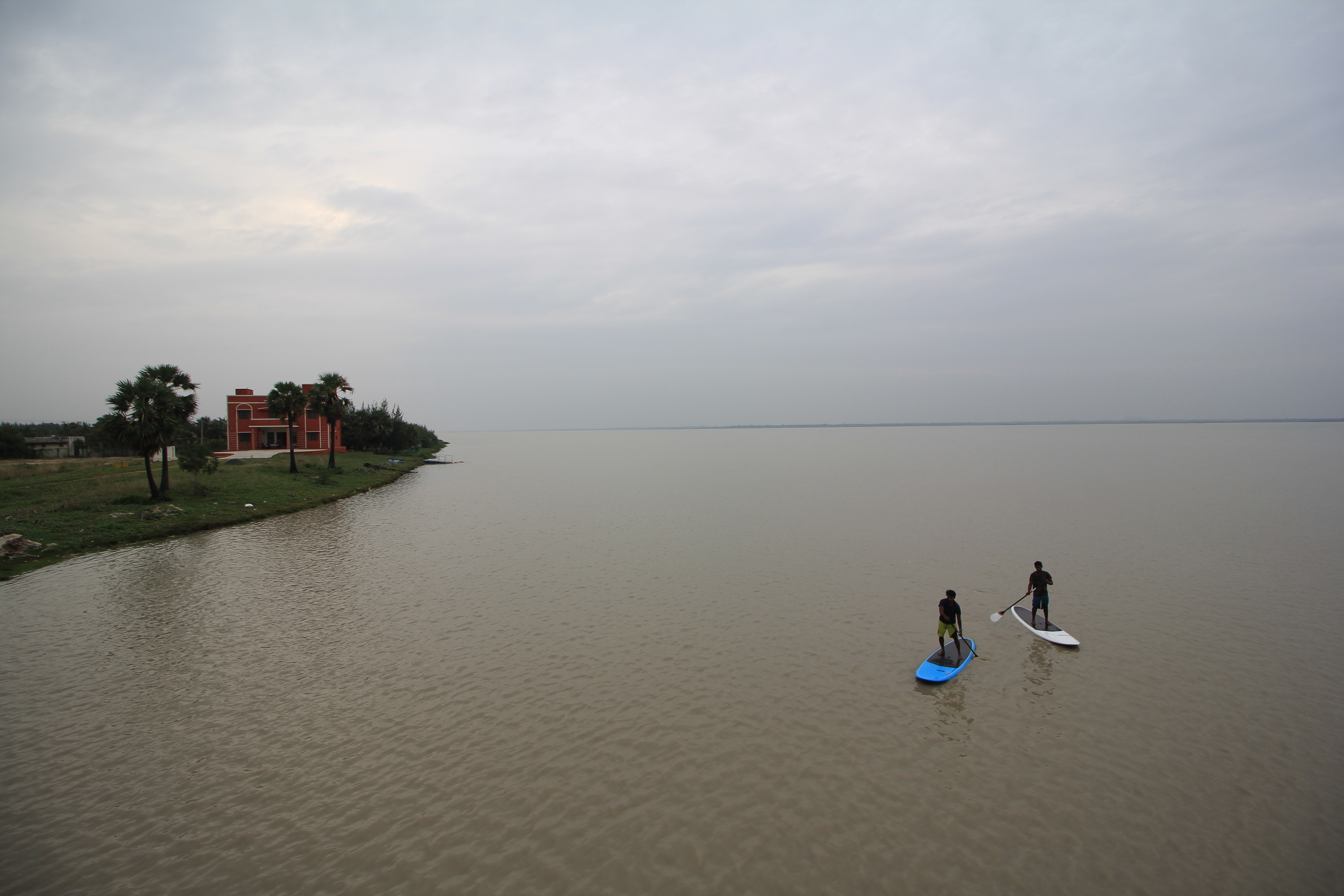 Standup paddleboarding and other water sports becoming popular activity in back waters near Alamparai Fort